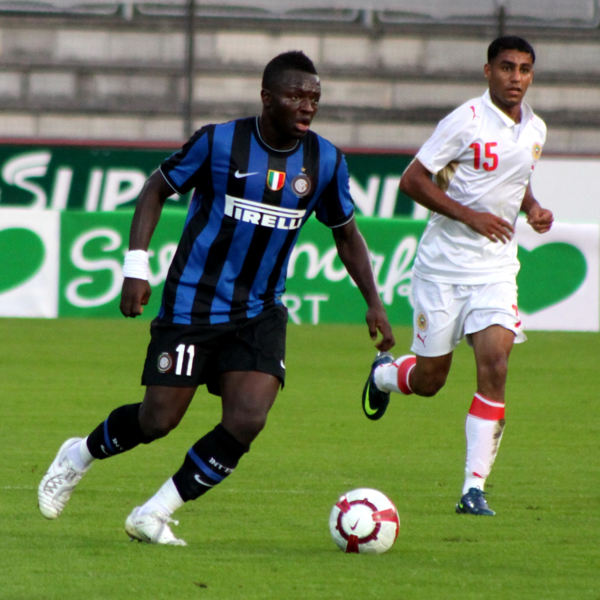 Sulley Muntari - F.C. Internazionale Milano